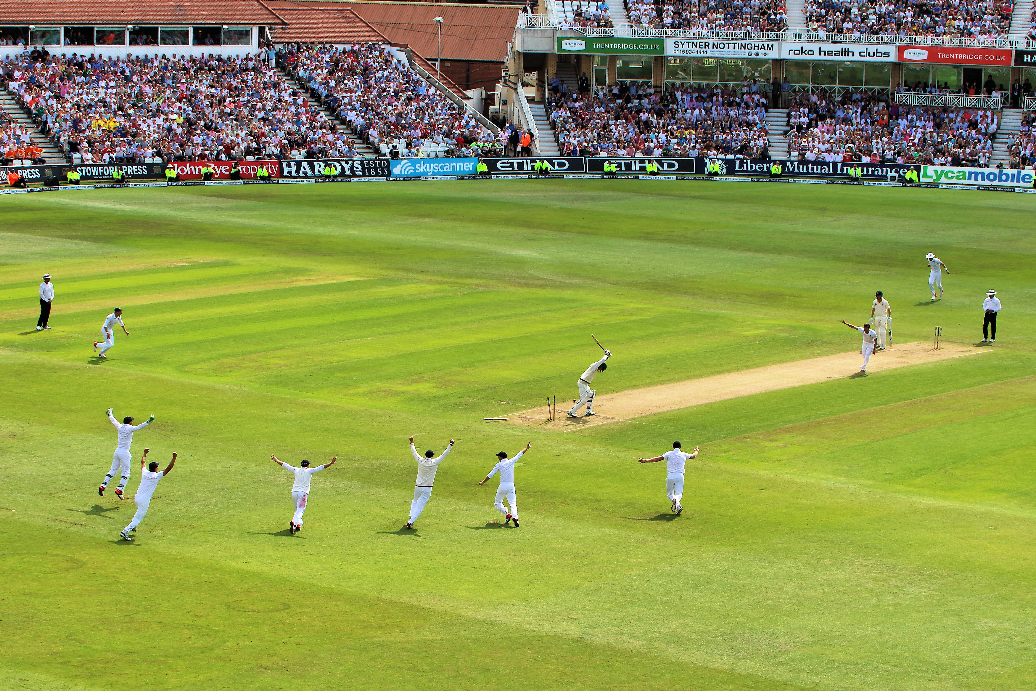 The final wicket falling at the 4th Test in the Ashes series at Trent Bridge.